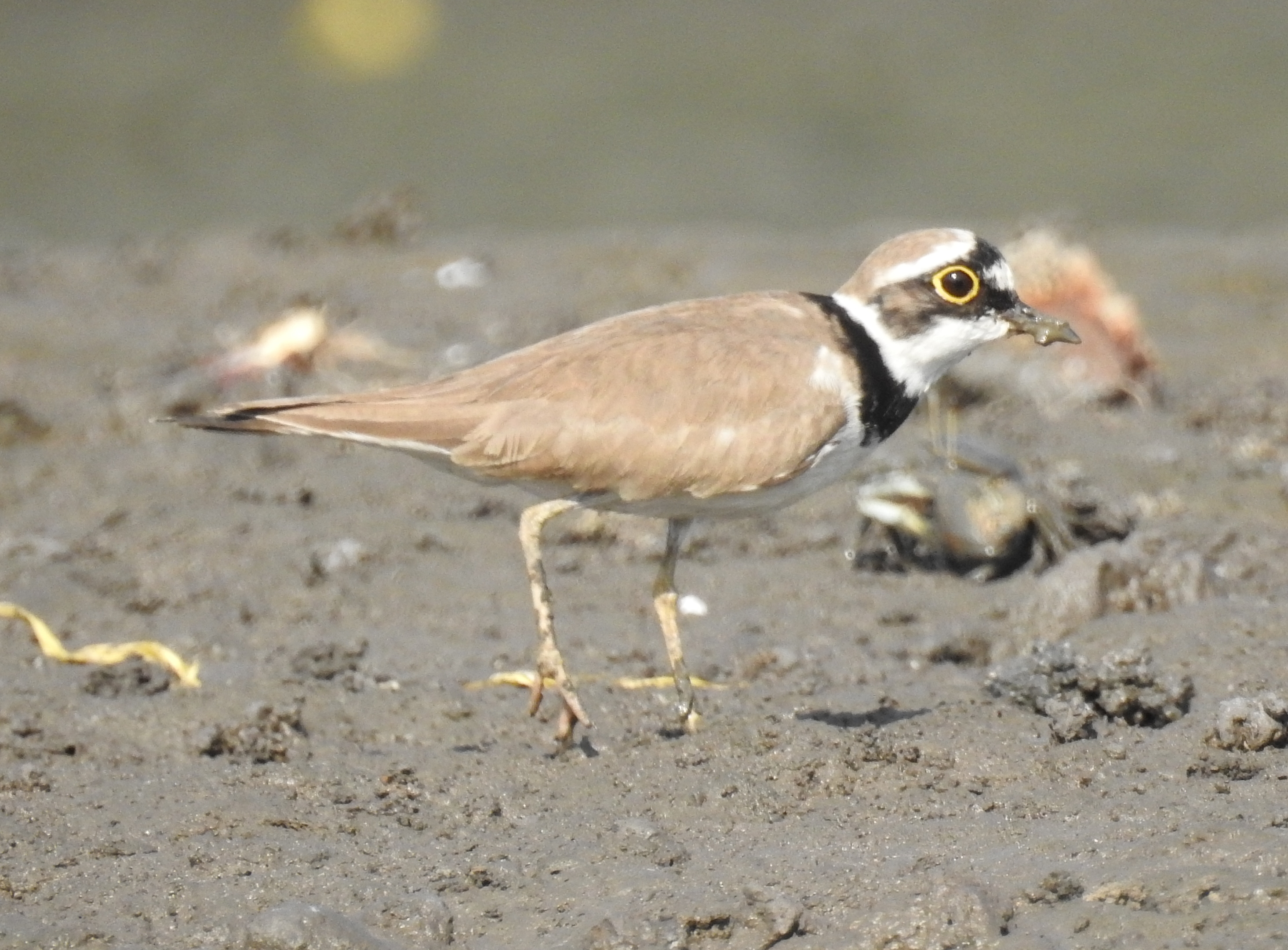 Little Ringed Plover Charadrius dubius. Photographed by Dr. Raju Kasambe at Mahul-Sewri Mudflats, Mumbai. This is an Important Bird area (IBA) as designated by BNHS and BirdLife International.